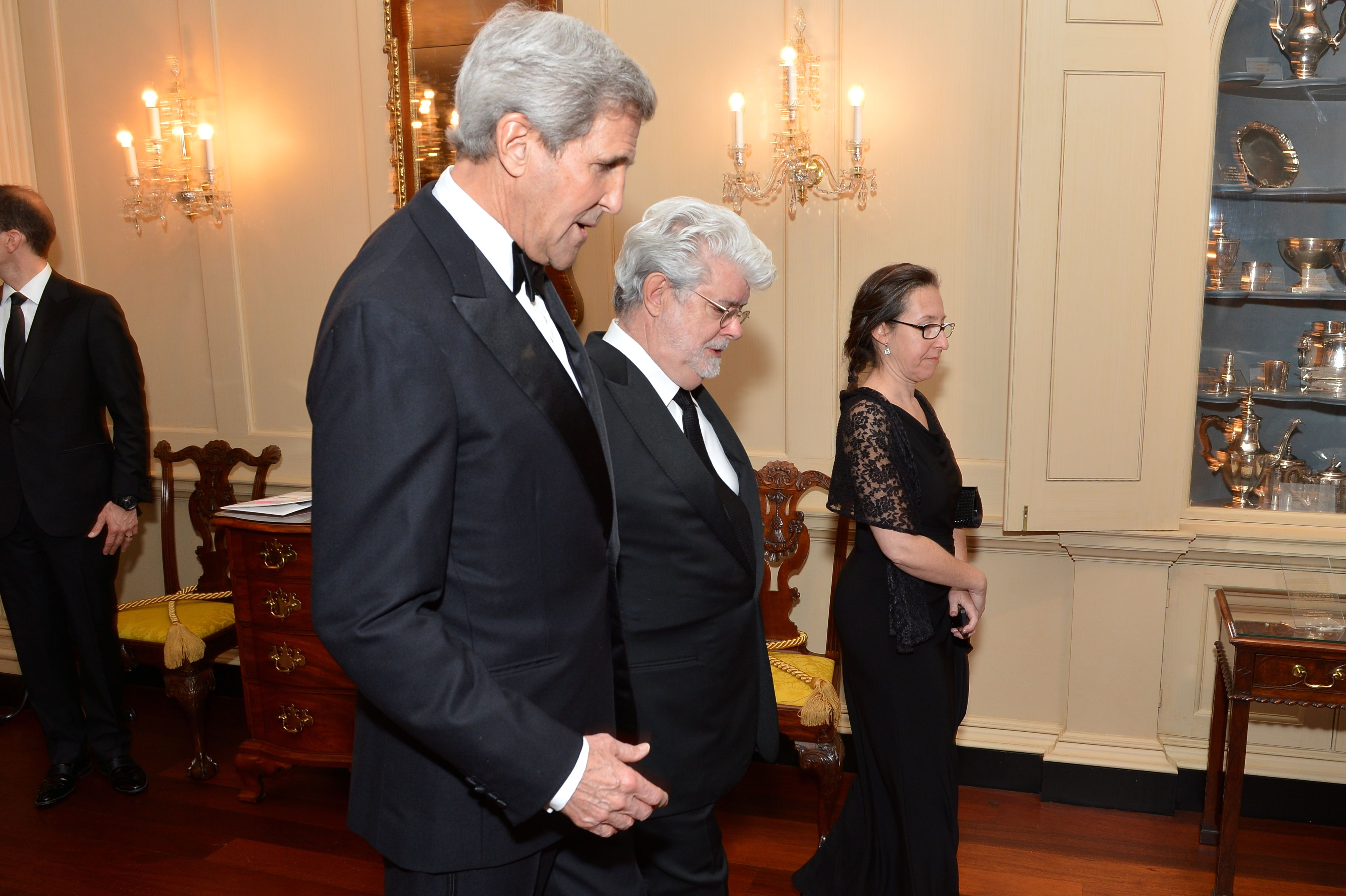 U.S. Secretary of State John Kerry chats with 2015 Kennedy Center Honors recipient director/producer George Lucas at the Kennedy Center Honors Dinner at the U.S. Department of State in Washington, D.C., on December 5, 2015. [State Department photo/ Public Domain]